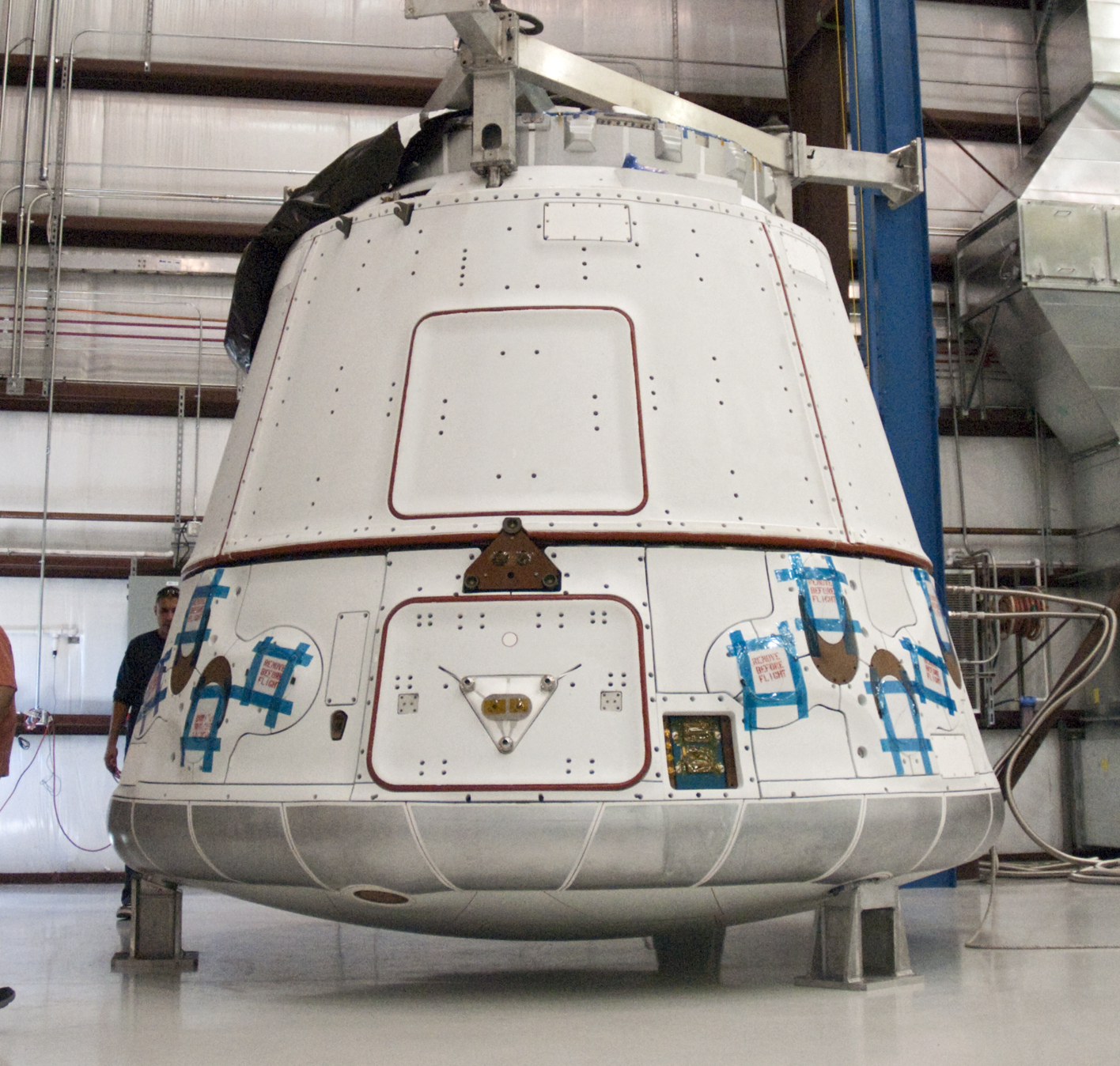 Workers unwrap the latest Space Exploration Technologies Corp. (SpaceX) Dragon capsule inside a building at Cape Canaveral Air Force Station in Florida on Oct. 23 so it can be processed and attached to the top of a Falcon 9 rocket on Space Launch Complex-40 for the company's next demonstration test flight for NASA's Commercial Orbital Transportation Services (COTS) program. SpaceX is one of two companies under contract with NASA to take cargo to the International Space Station. NASA is working with SpaceX to combine its last two demonstration flights, and if approved, the Falcon 9 rocket would launch the Dragon capsule to the orbiting laboratory for a docking within the next several months.